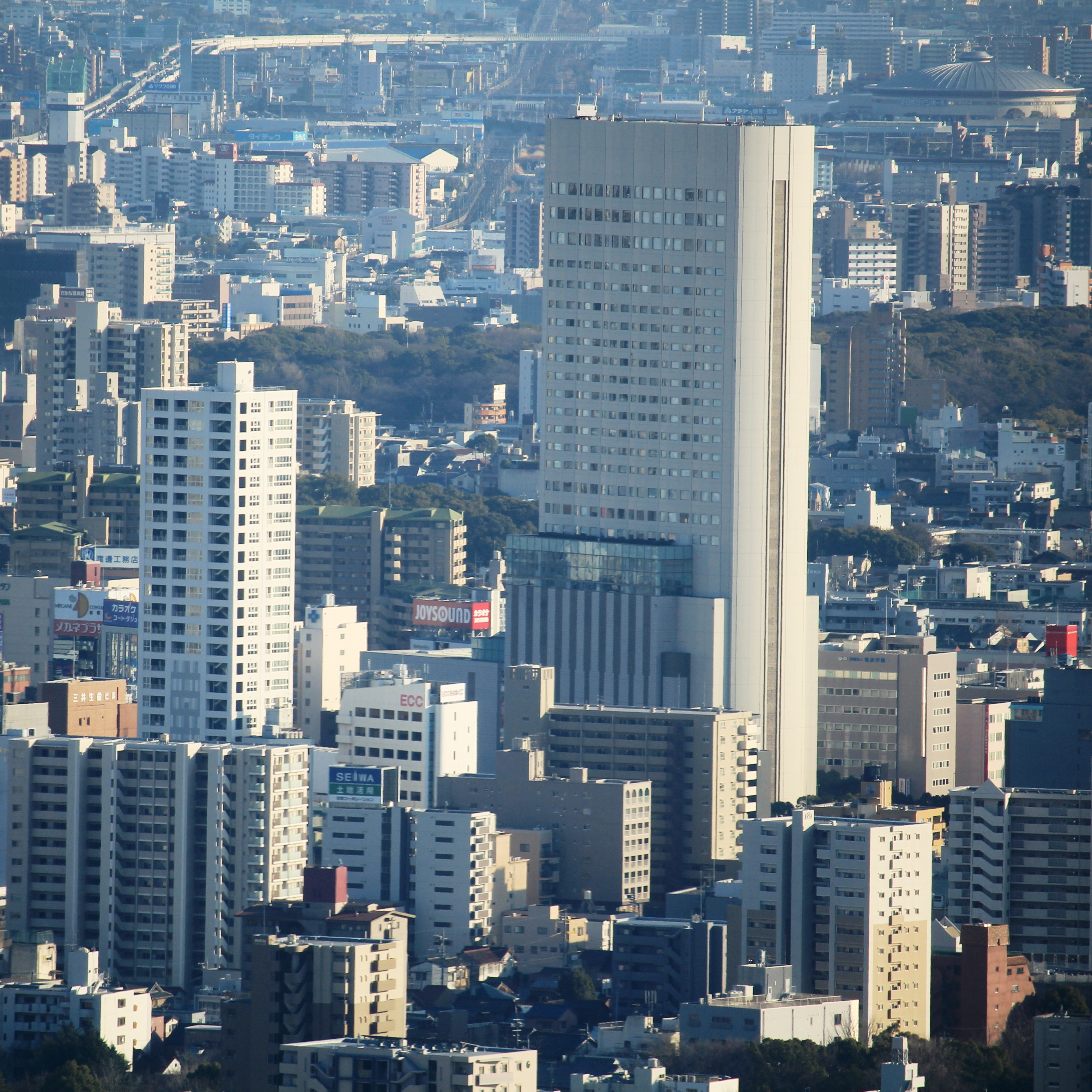 Kanayama Minami Building seen from Midland Square in Naka-ku, Nagoya, Aichi, Japan.